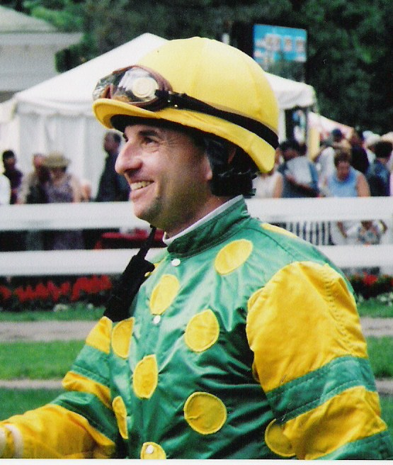 Saratoga, 2004